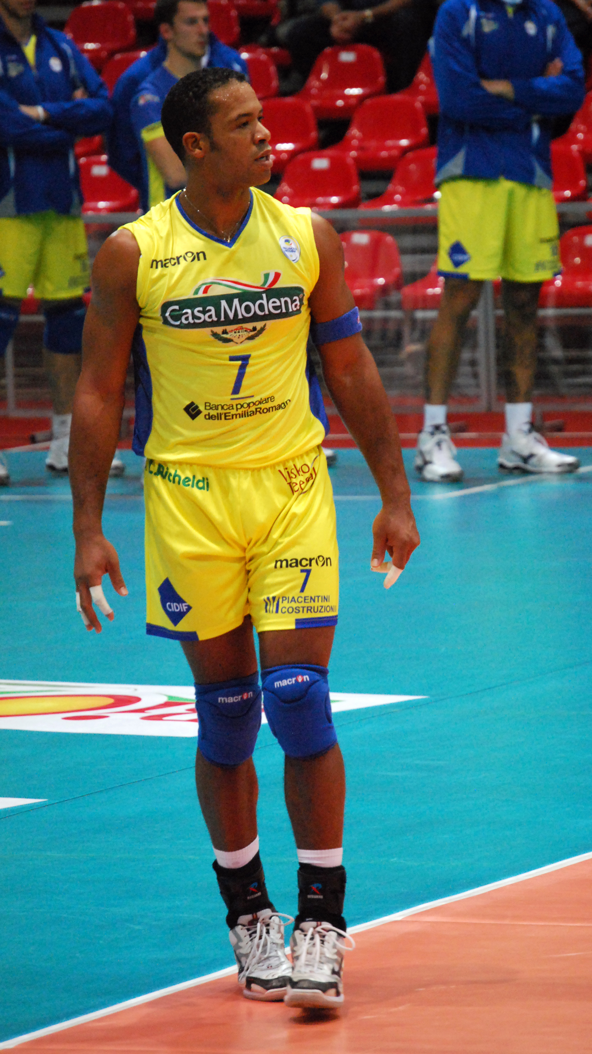 I took this pic during a volleyball match in Piacenza.